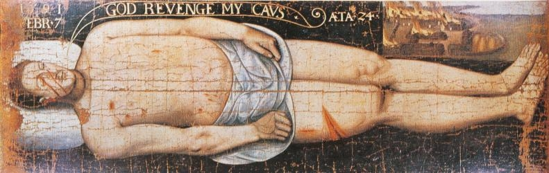 The Bonnie Earl of Moray, anonymous "vendetta portrait" of the murdered James Stewart, 2nd Earl of Moray, 1592. Moray was murdered on 7 February. Since, according to the Julian calendar, the new year in Scotland, as in the rest of medieval Europe, began on 25 March, the portrait bears the date 7 February 1591 (Old Style).